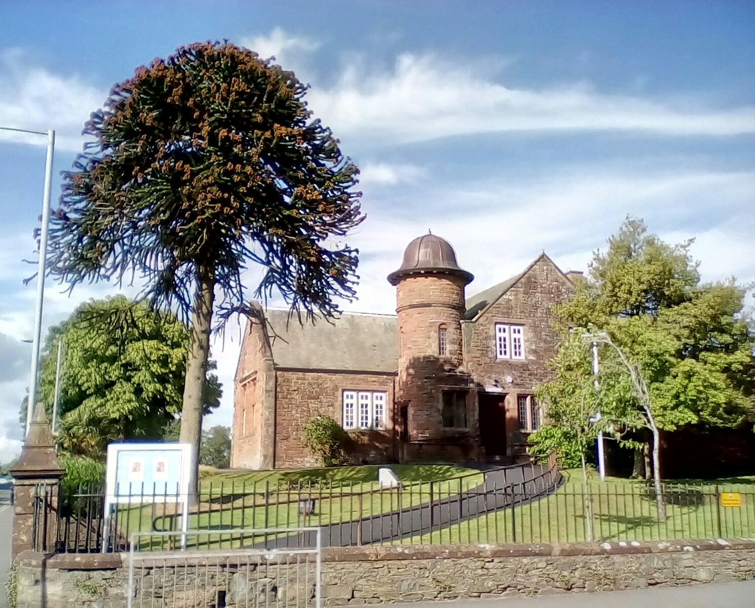 Castle Douglas Public Library, Kirkcudbrightshire, Scotland